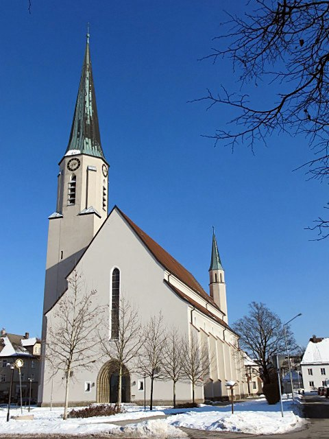 kath. church St. Rupert